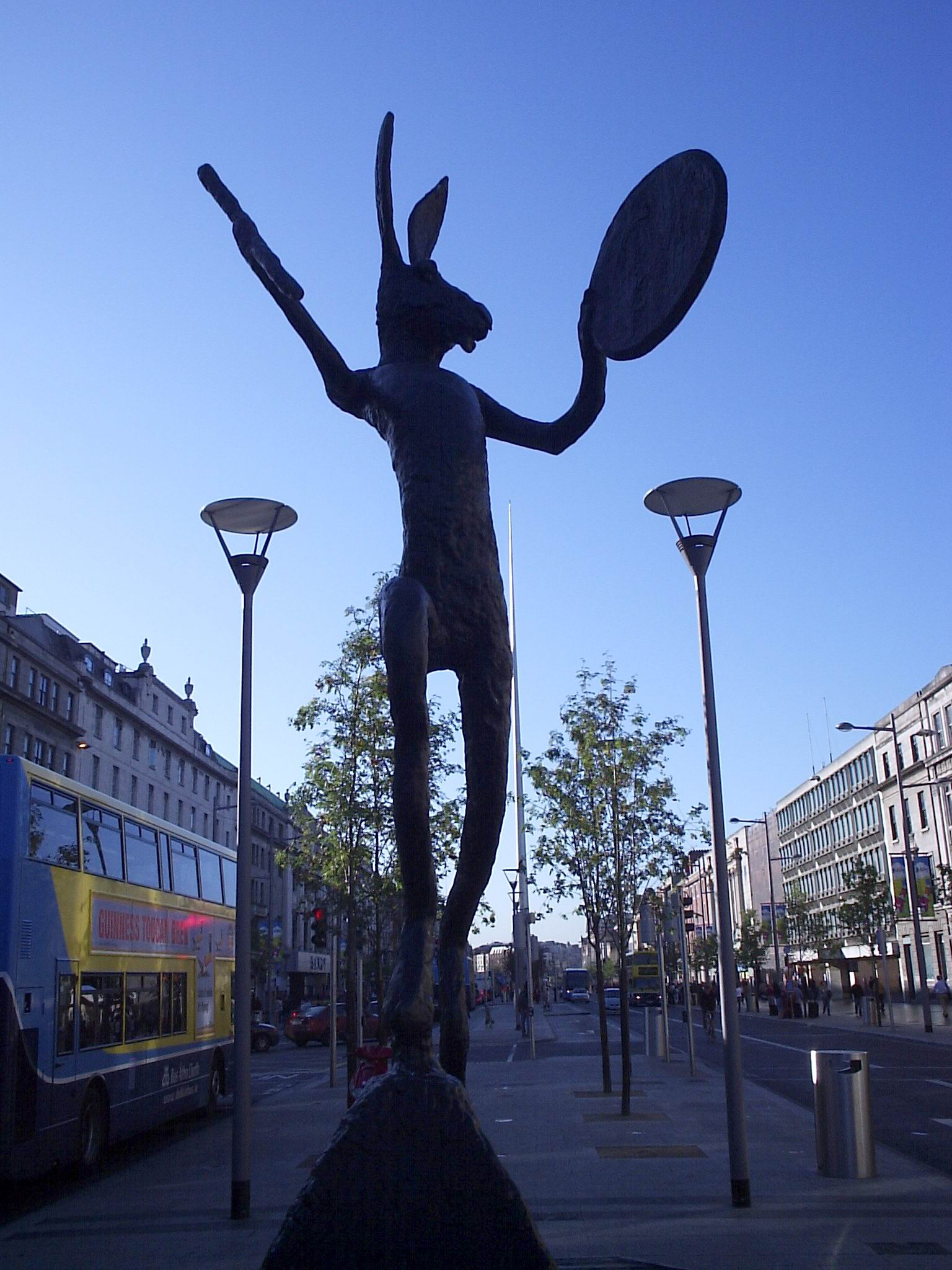 Sculpture of Barry Flanagan in Dublin in 2006 called Drummer situated on O'Connell Street